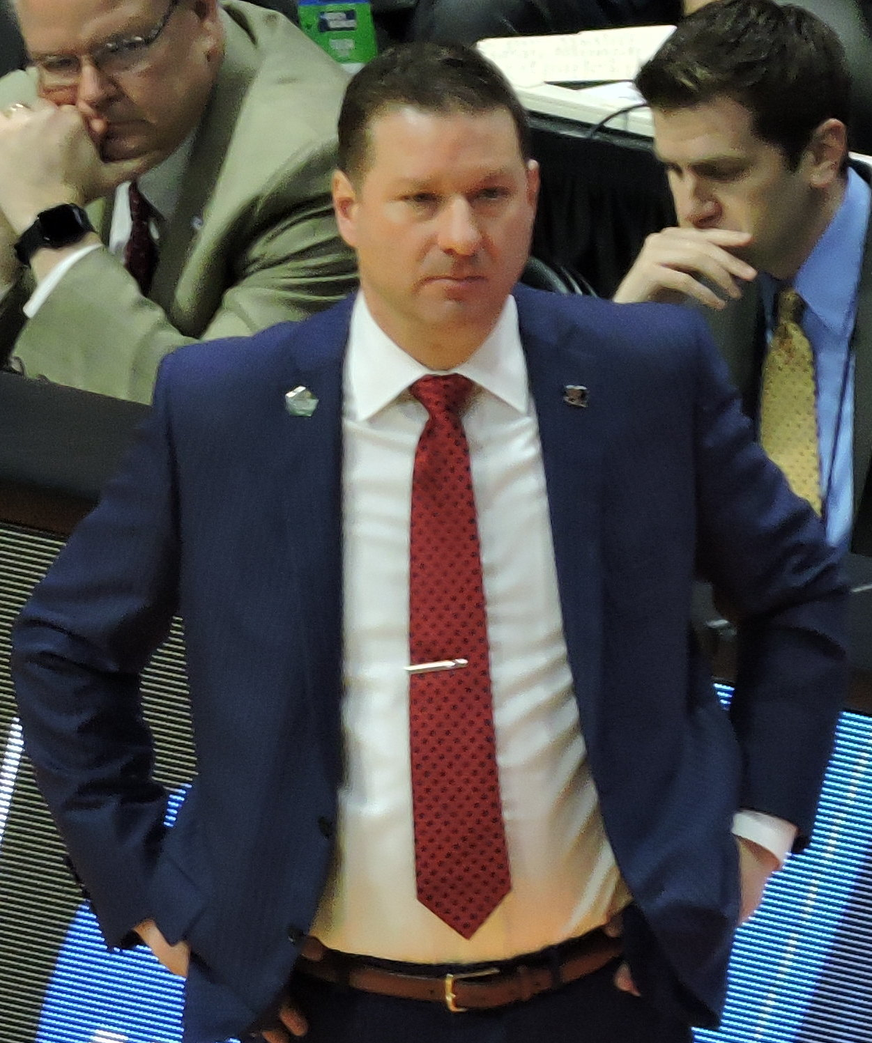 Texas Tech Coach Chris Beard on the sidelines for March Madness at the BOK Center in Tulsa, Oklahoma.